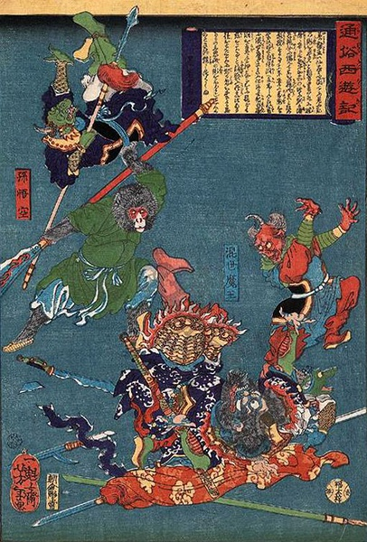 A scene of chapter 2 of Journey to the West. Sun Wukong fighting the demons who invaded the cave where he and his tribe of monkeys live